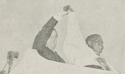 Congolese President Fulbert Youlou holds hands with French Minister of Culture André Malraux to celebrate the independence of the Republic of the Congo